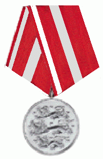 Forsvarets Medalje for International Tjeneste, Libanon Danish Medal UNIFIL